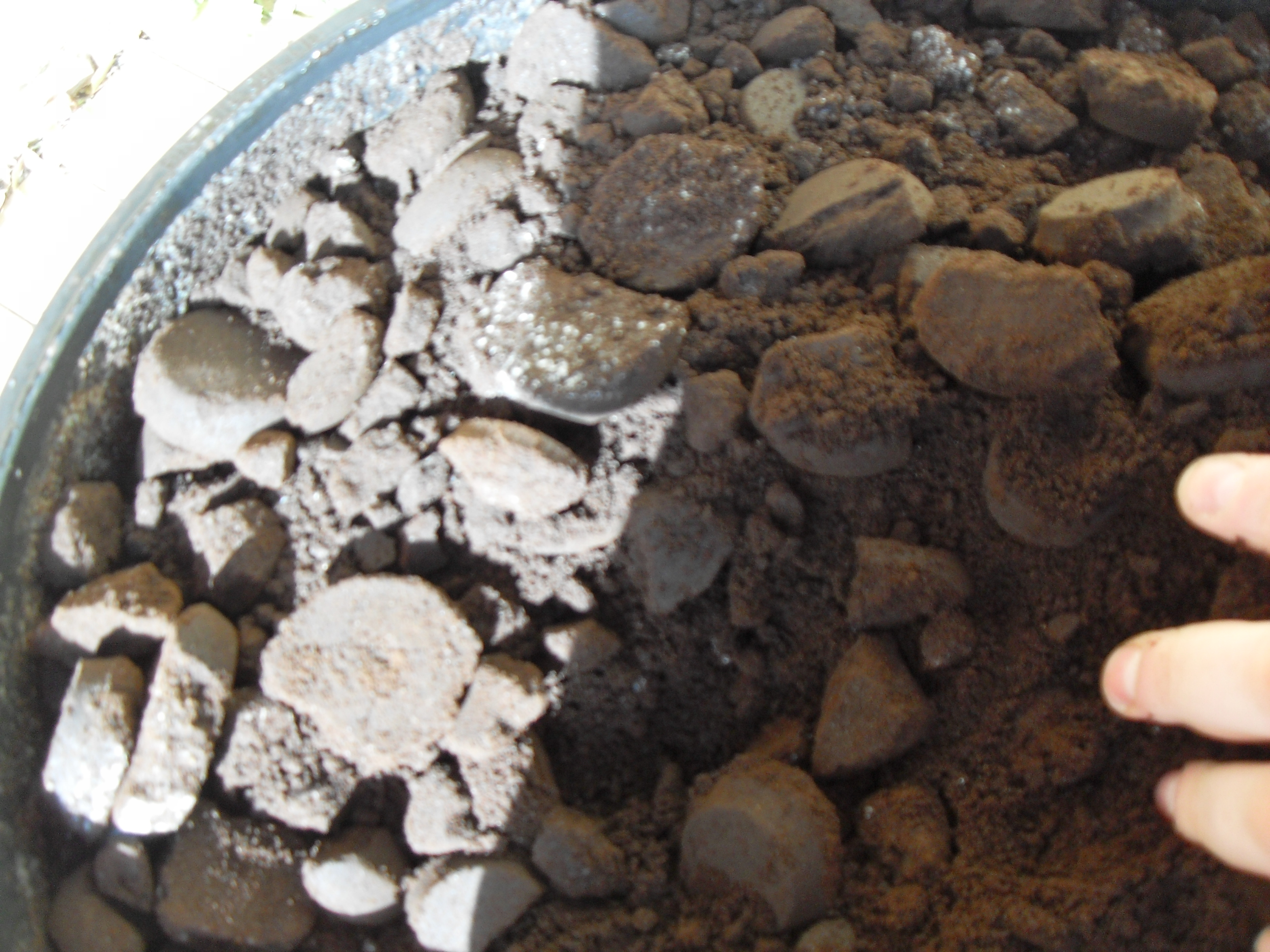 A bucket of coffee grounds prior to being used on plants